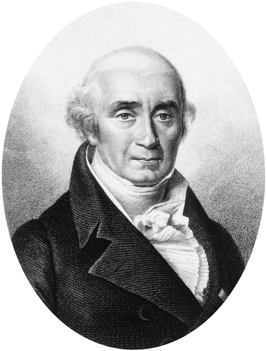 Engraving of Marc-Auguste Pictet, the Swiss scientist